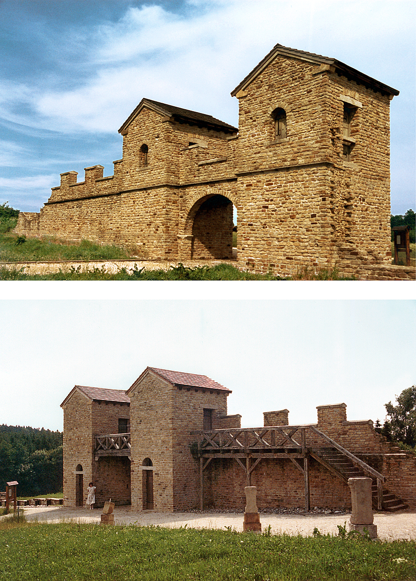 East castle of Welzheim. In 1977, the western gate was analyzed and later reconstructed in cooperation with the Saalburgmuseum and the Landesdenkmalamt on behalf of the city of Welzheim and the historical society Welzheimer Wald. The two photos show the the front and back of the west gate.